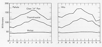 URL